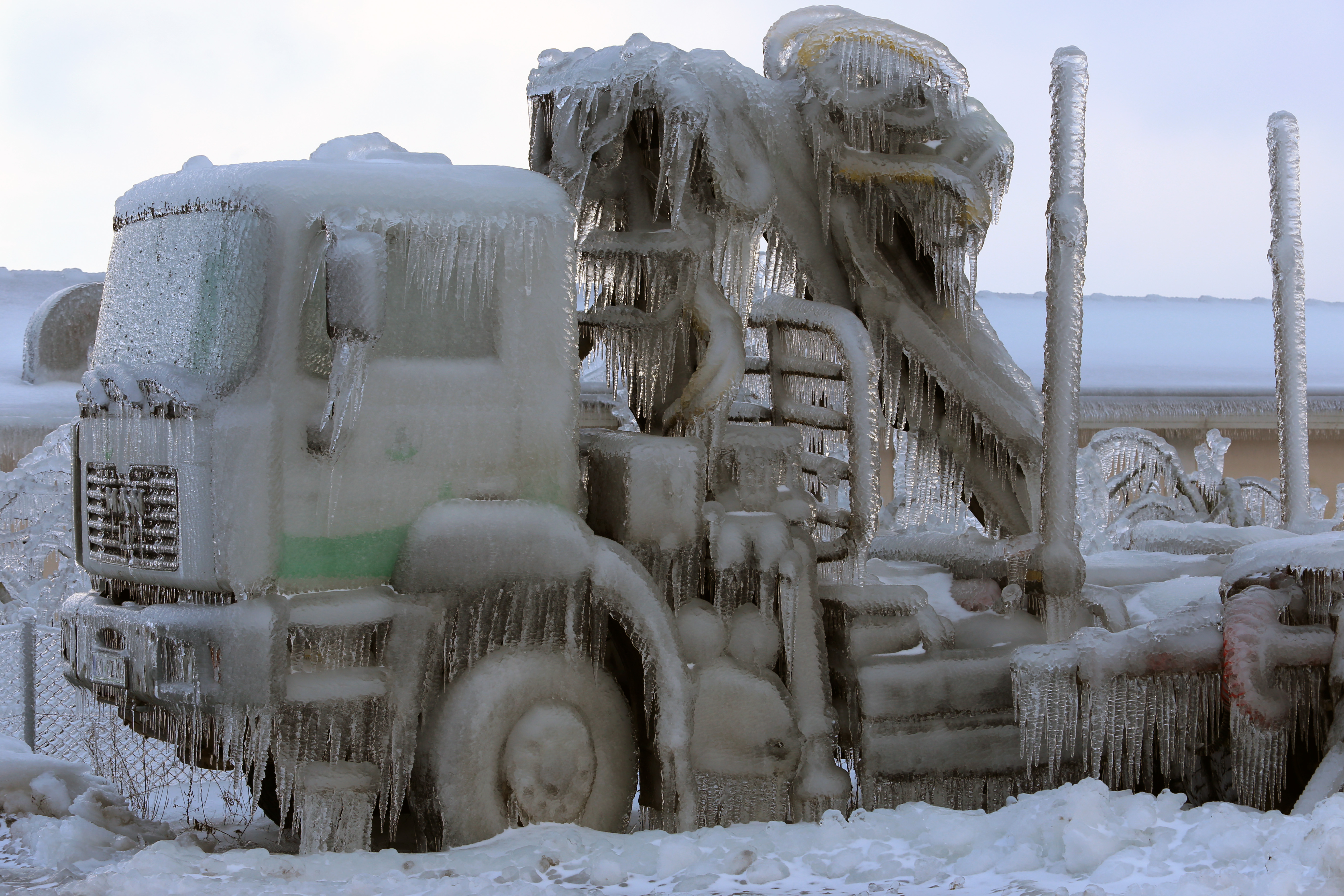 Sleet-encased truck in Postojna after freezing rain that struck Slovenia in early February 2014.